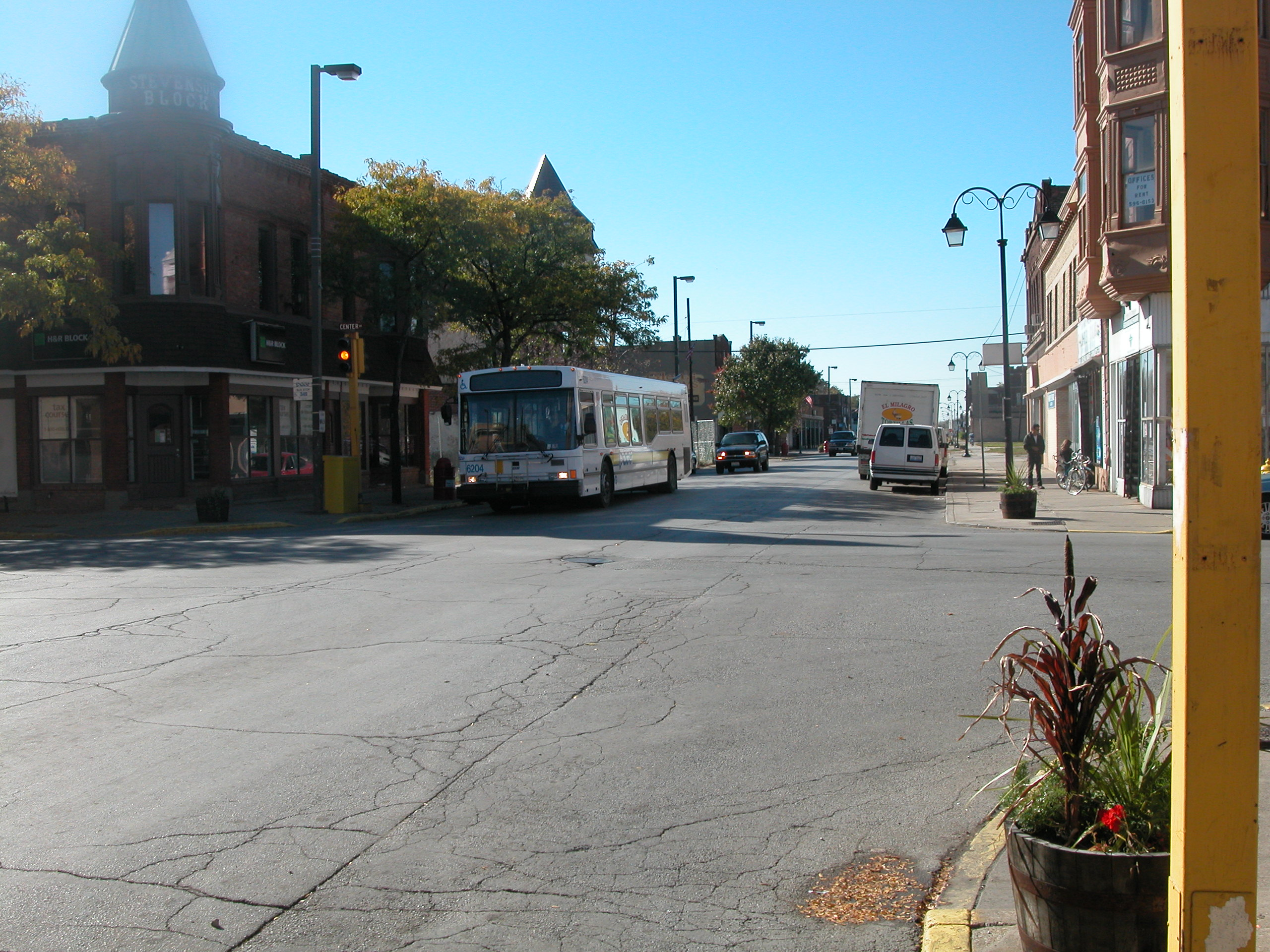 154th St. & Center Ave. Harvey, IL